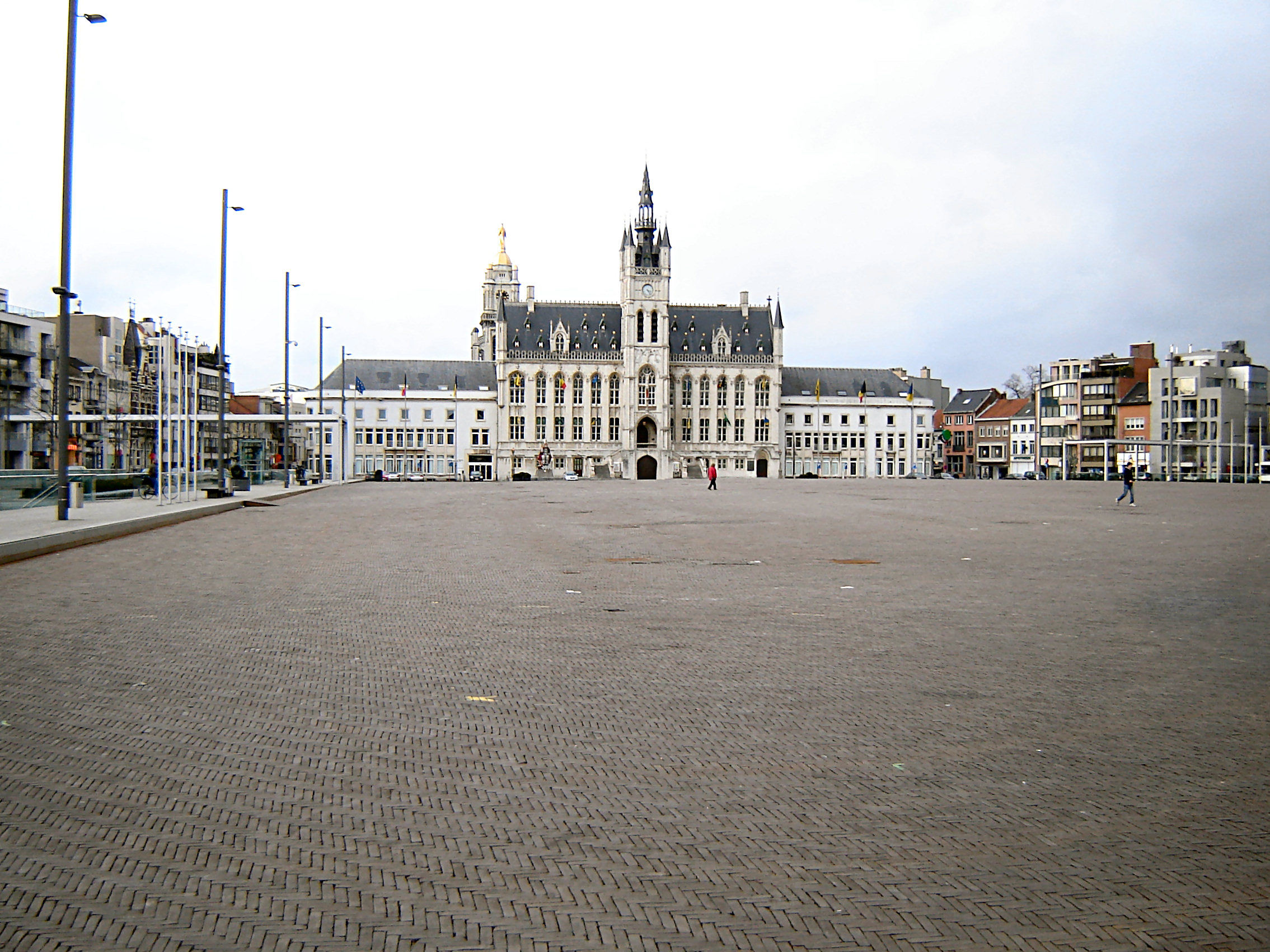 "Grote Markt" market square of Sint-Niklaas, with the city hall. Sint-Niklaas, East Flanders, Belgium